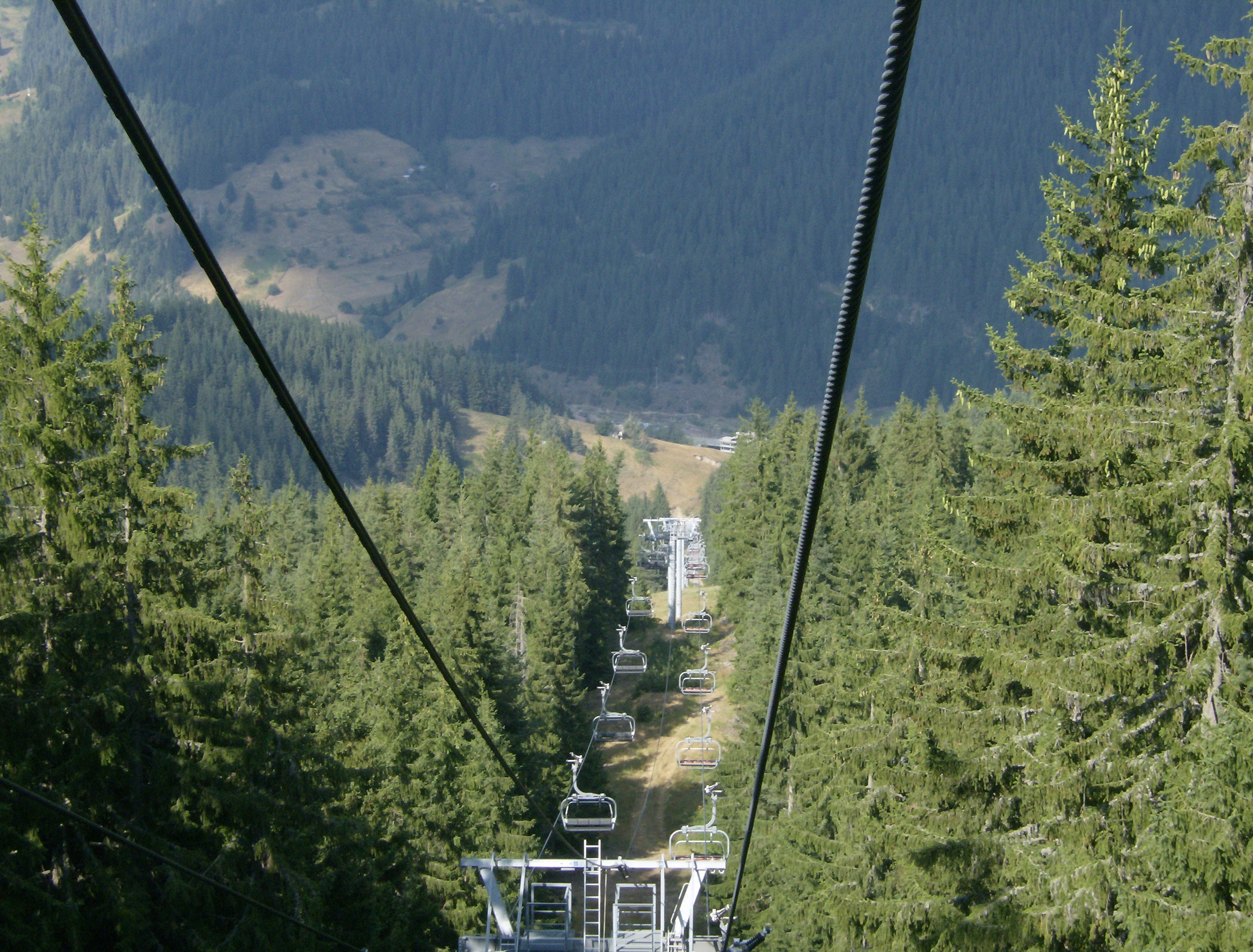 Mechi chal lift